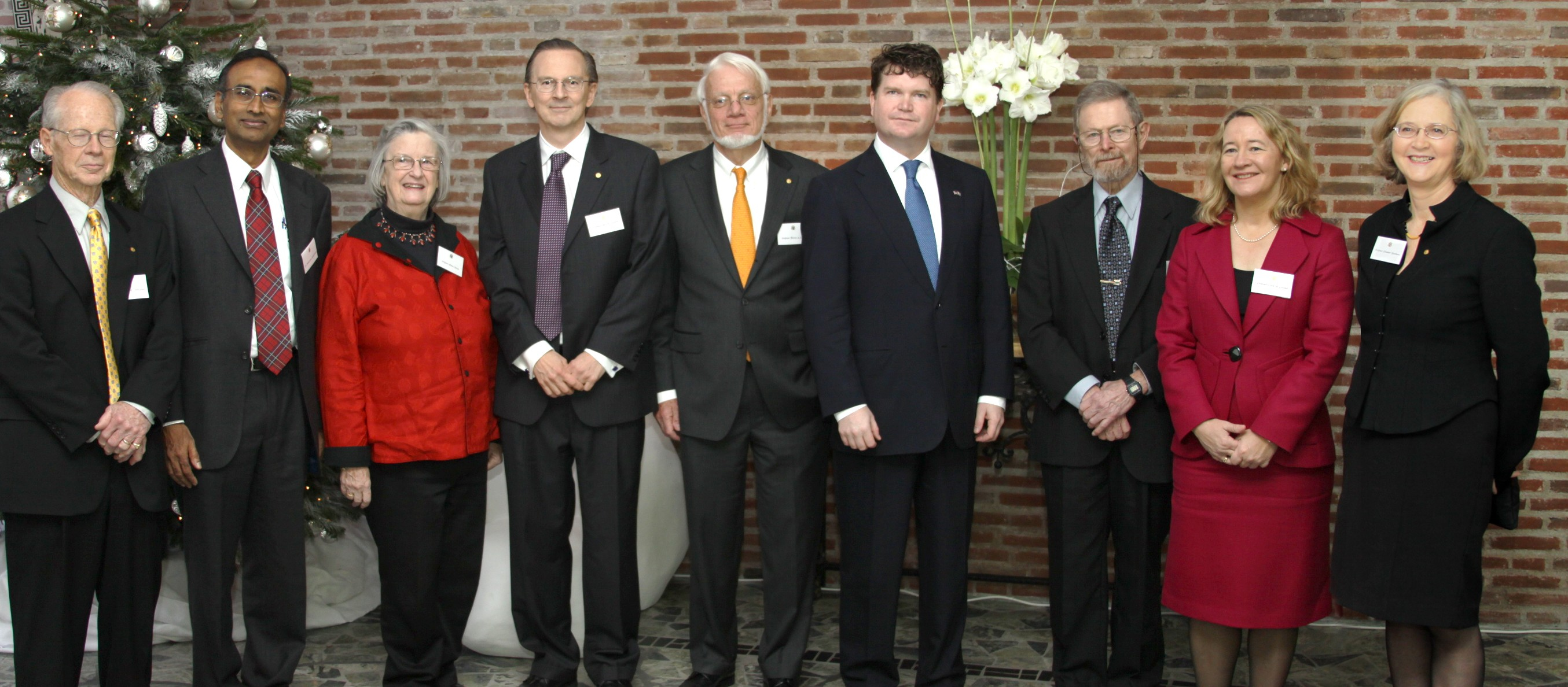 From left to right: Oliver E. Williamson (Economics), Venkatraman Ramakrishnan (Chemistry), Elinor Ostrom (Economics), Jack W. Szostak (Medicine), Thomas A. Steitz (Chemistry), Ambassador Matthew Barzun, George E. Smith (Physics), Carol W. Greider (Medicine), Elizabeth H. Blackburn (Medicine)